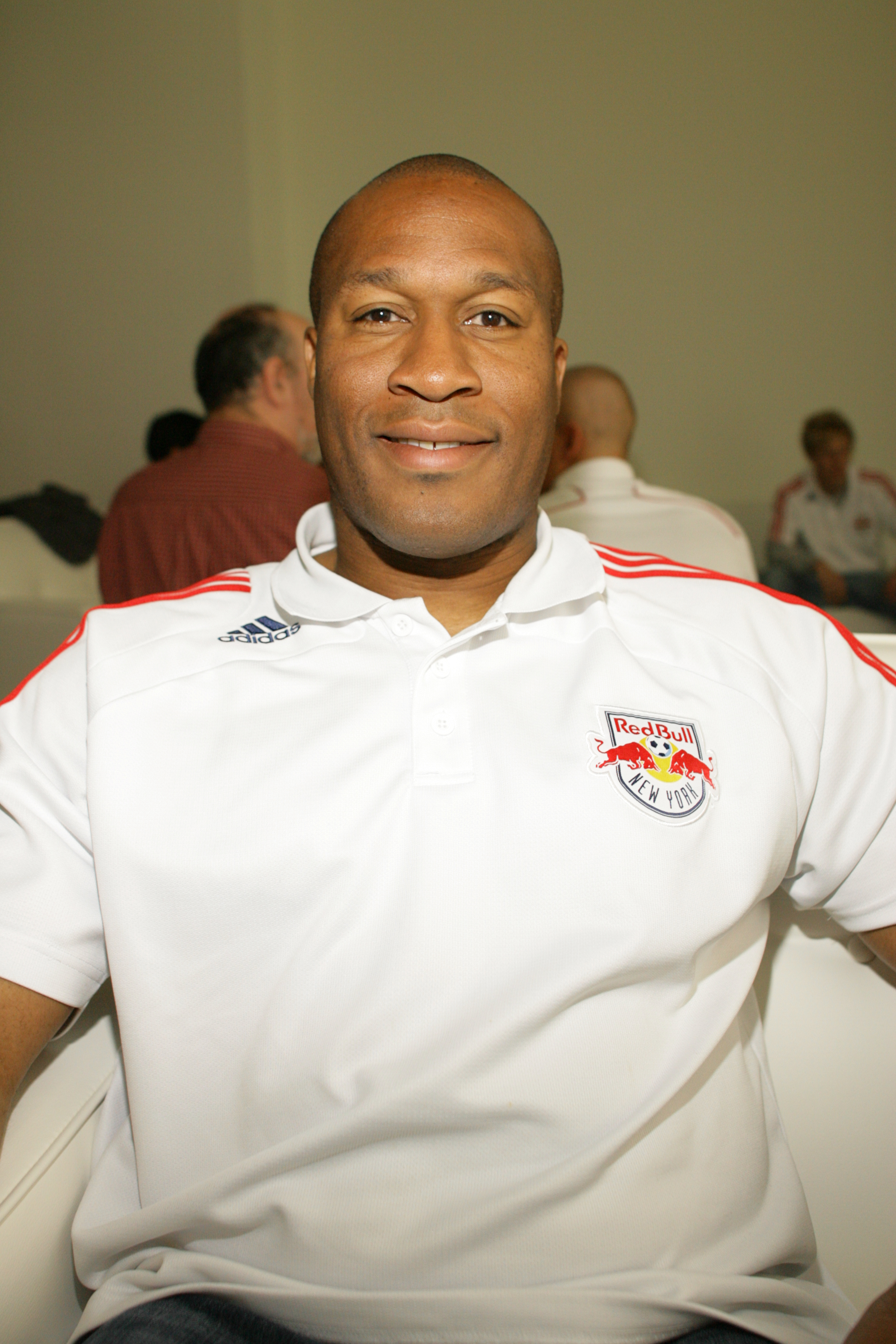 Zach THORNTON #24, Goalkeeper